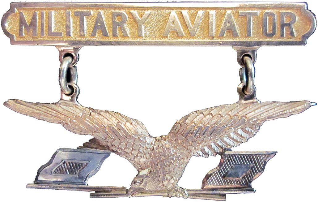 U.S. Army Air Corps Pilot Wings